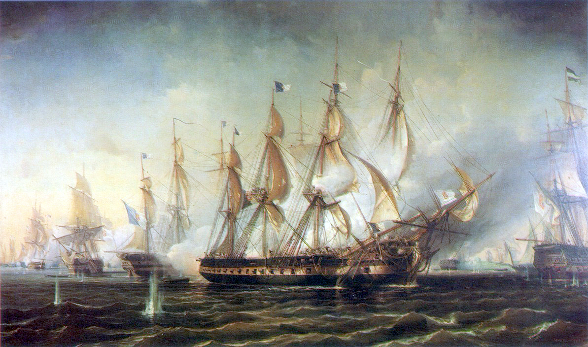 Battle of Cape St Vincent